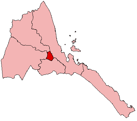 Map of Eritrea showing the Central Region; created with the GIMP. Made by User:Acntx